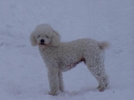 Pudel miniature